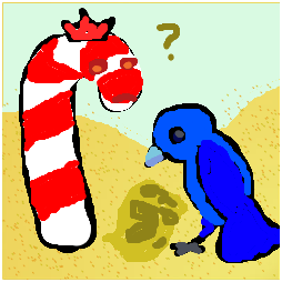 A cropped screenshot showing one drawing from the Broken Picture Telephone game found at — I am the BPT user "notthatJack" and created the drawing contained in this screenshot.